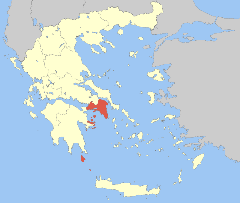 Locator Map of Attica Periphery, Greece